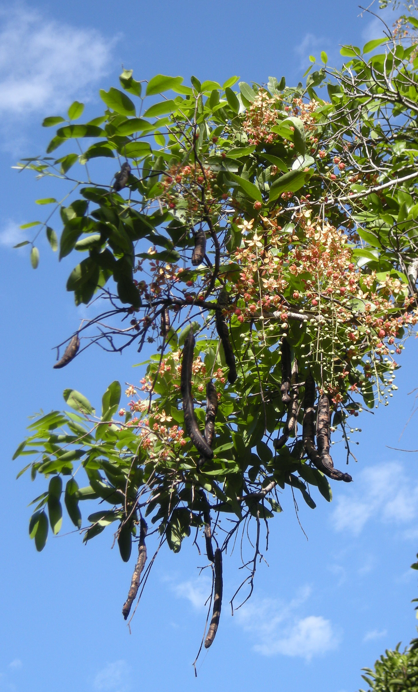 Cassia brewsteri flowers, foliage and pods. Rockhampton, Central Queensland.